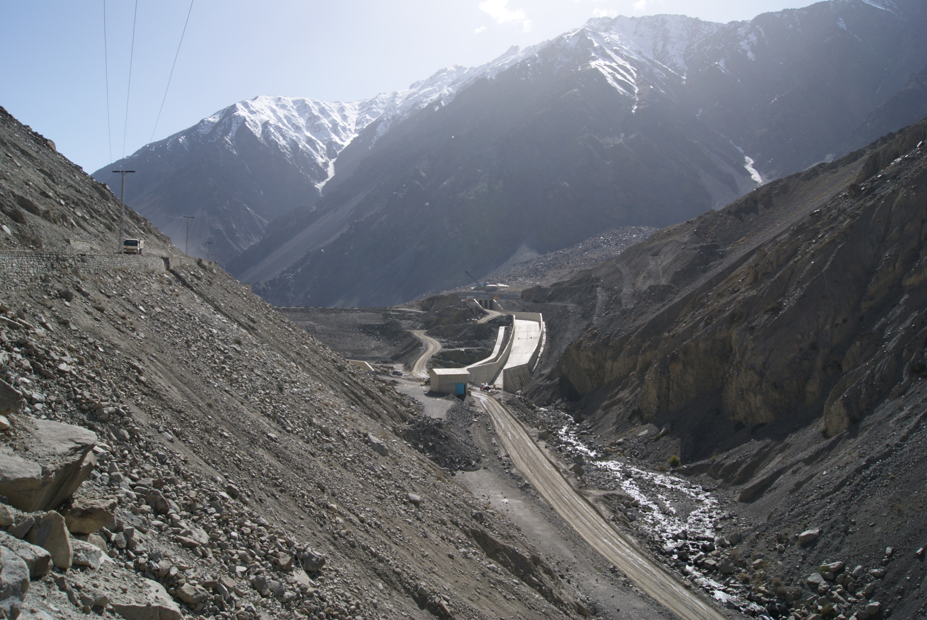 Satpara Dam under construction in Gilgit-Baltistan, Pakistan.